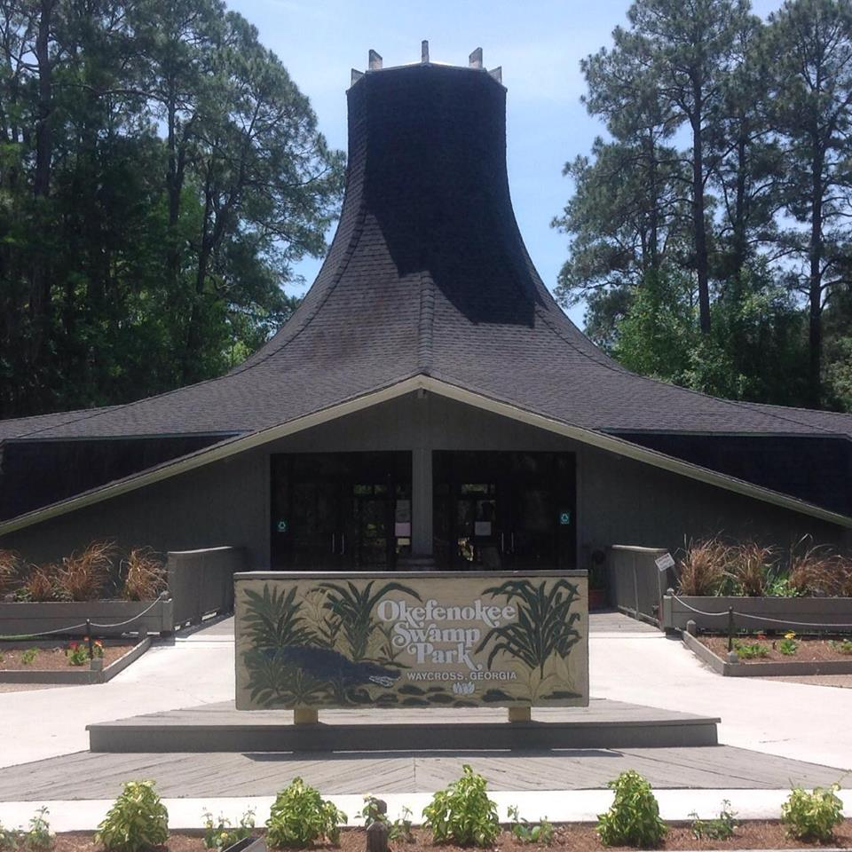 Designed to resemble a cypress knee, the Gift Shop and Ticket Office serves as a landmark in the Okefenokee Swamp